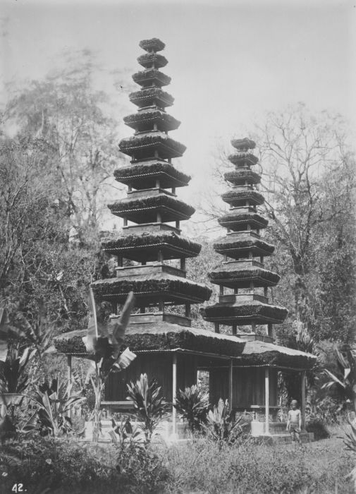 Merus